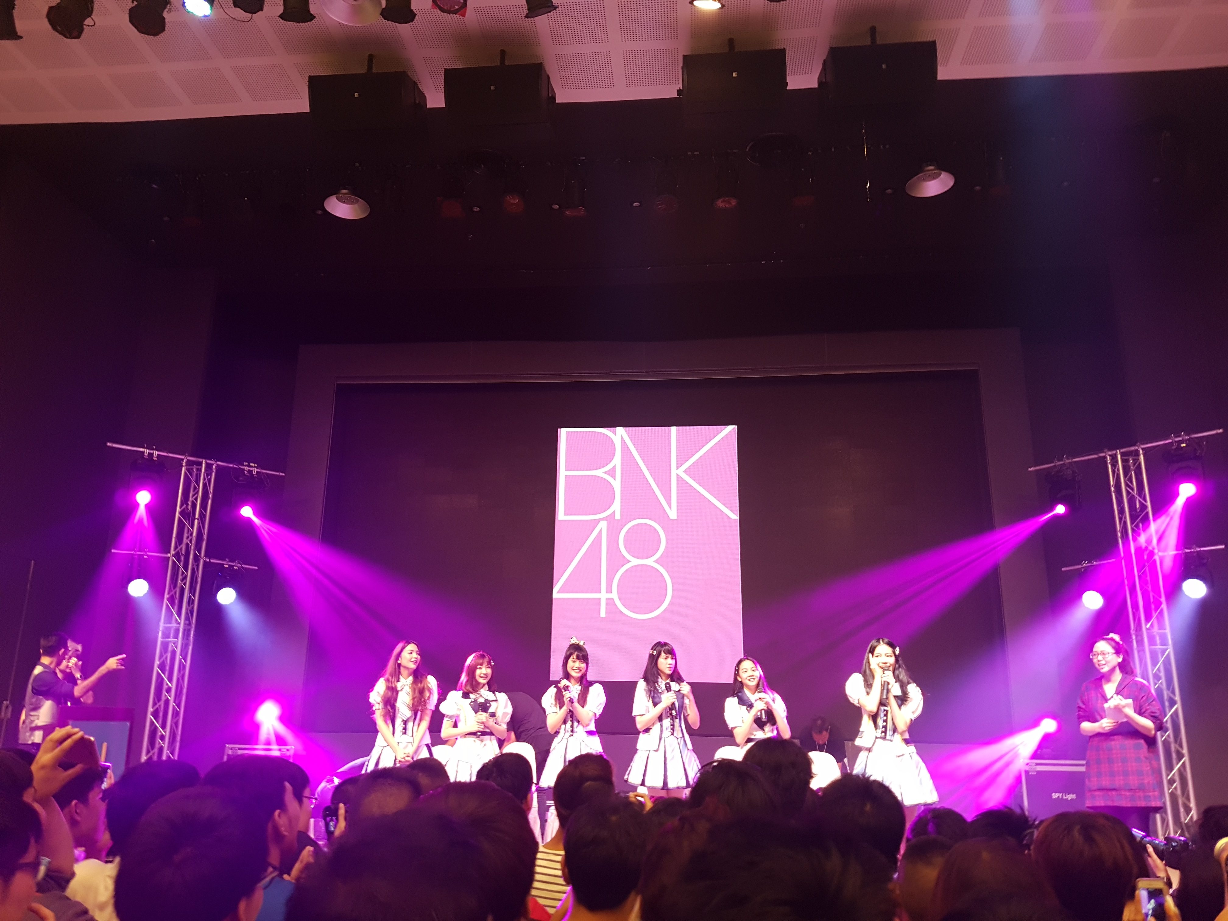 BNK48 at the event Maruya 20, held at the Suan Dusit University auditorium, Dusit District, Bangkok, Thailand, on Sunday, 16 July 2017. The participating members were Cherprang, Jaa, Kaimook, Music, Orn, and Satchan.